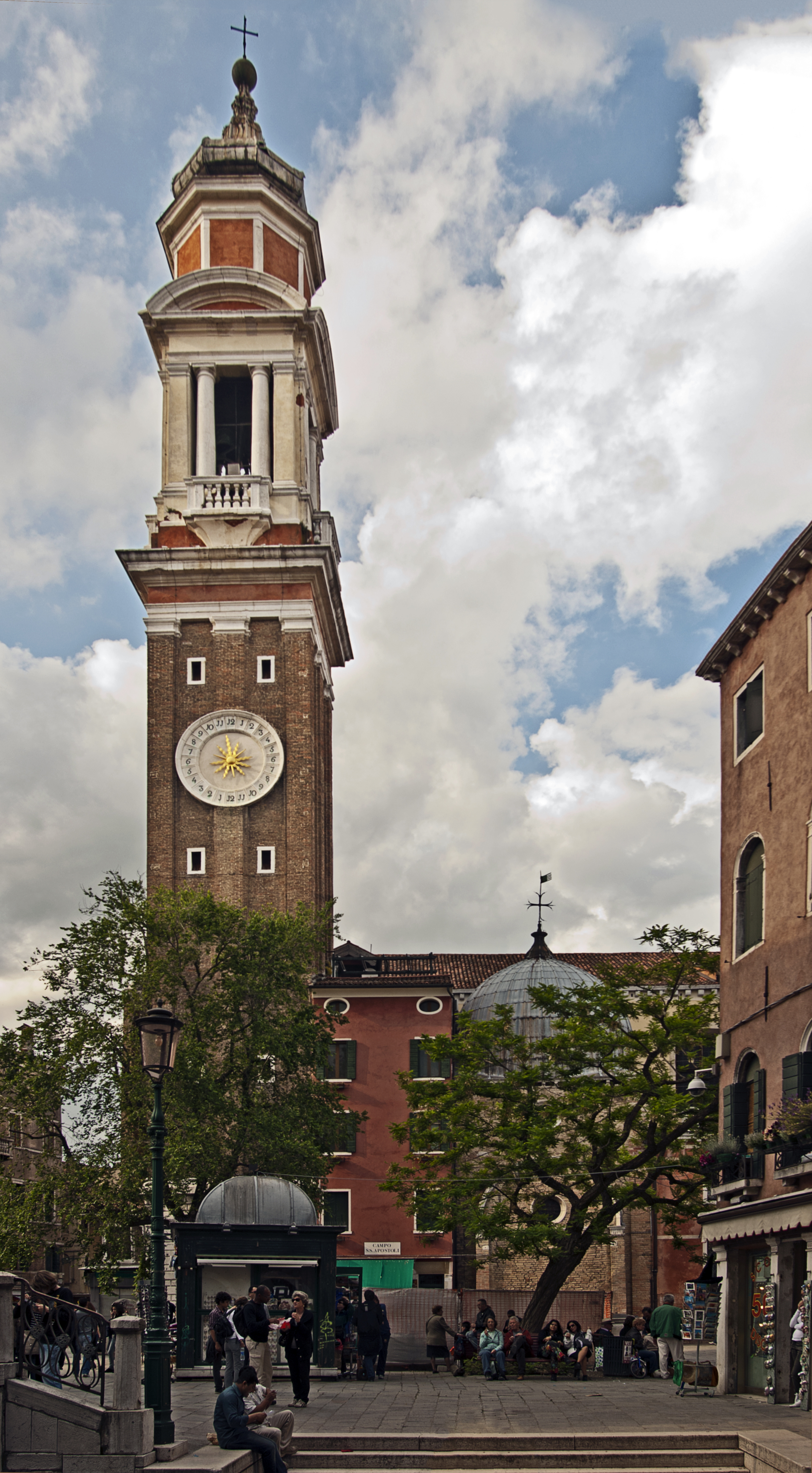 Church of Santi Apostoli in Venice - Exterior